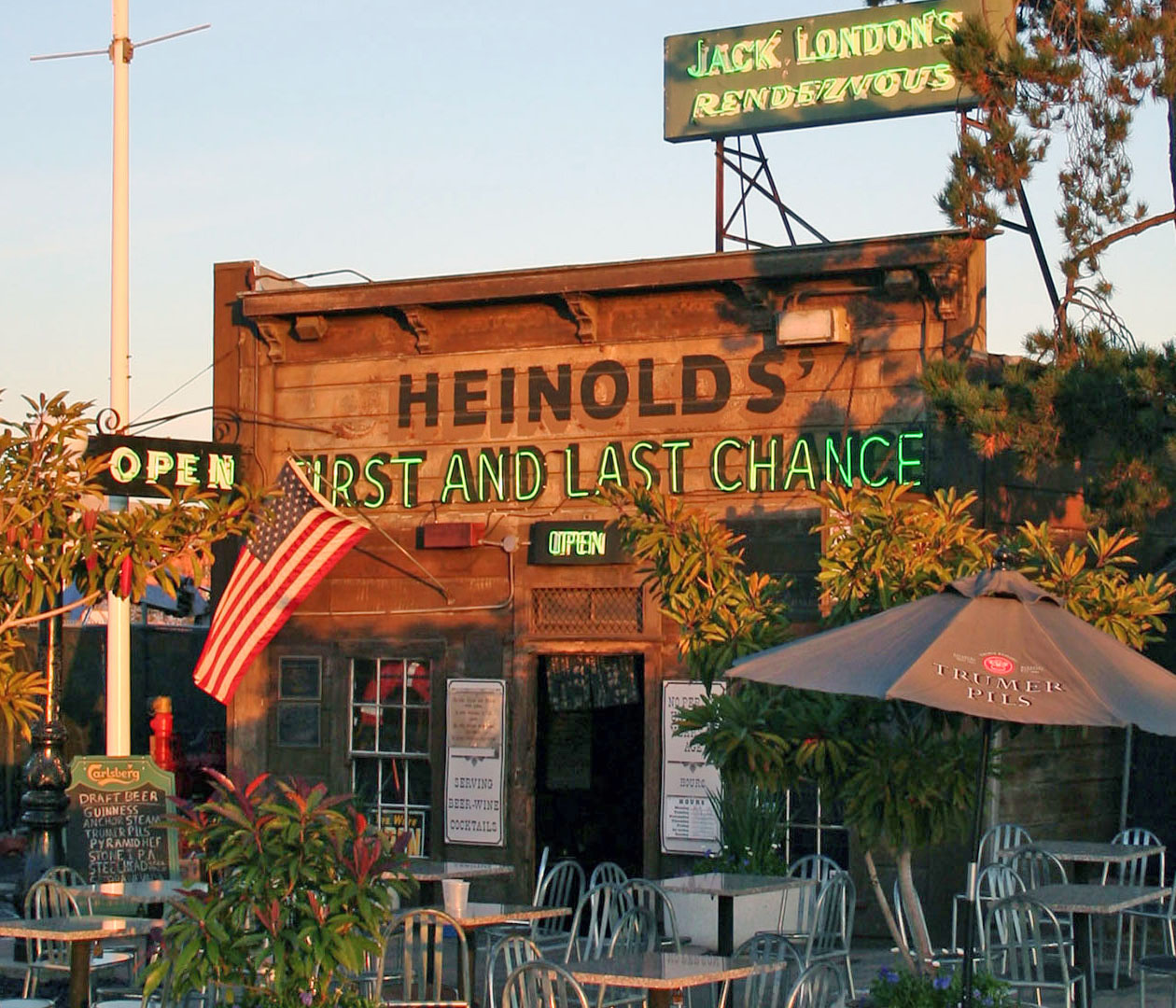 Heinold's First and Last Chance a last chance saloon in Jack London Square, Oakland, CA.